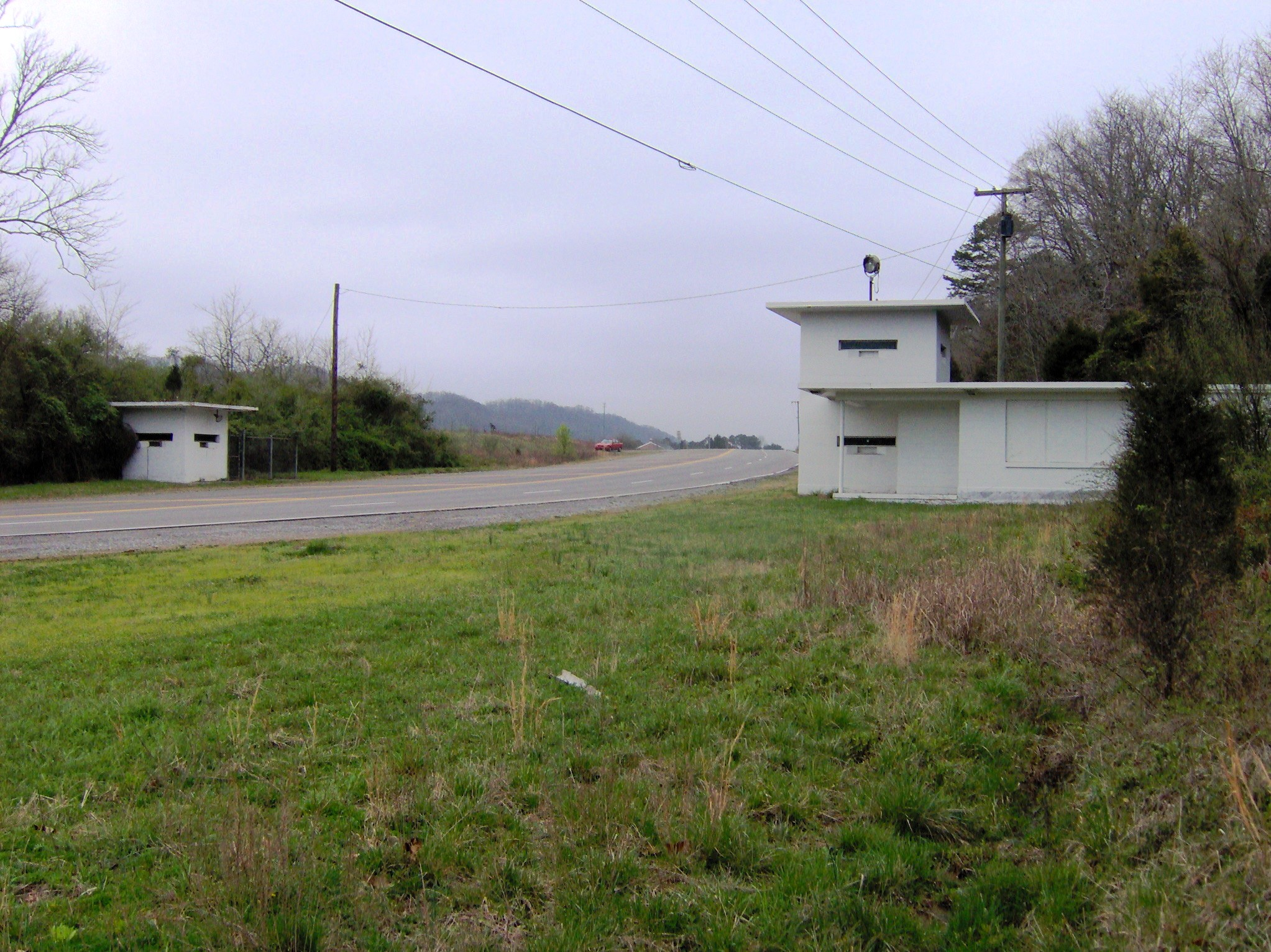 Bethel Valley Road in Oak Ridge, Tennessee, in the southeastern United States.